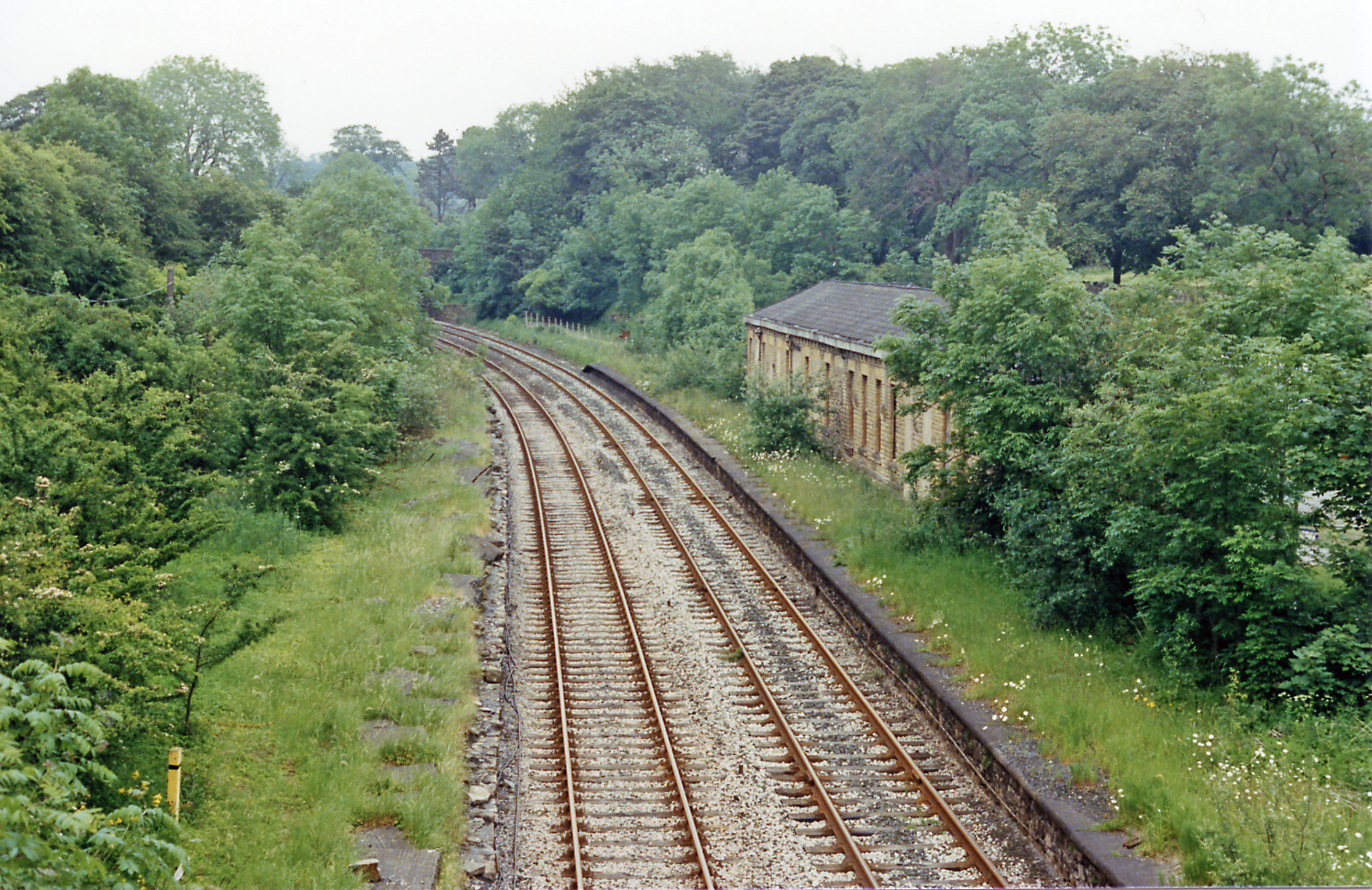 Chatburn station (remains). View NE, towards Hellifield: ex-L&Y Blackburn - Hellifield secondary main line. The station and line were closed to passenger services on 10/9/62, but remained open for goods until 23/3/64. In 1994 services were restored Blackburn - Clitheroe, infrequently on to Hellifield and the through route has been maintained intact for some freight, and for diverted or Special passenger trains, also for two Blackpool - carlisle passenger trains on Summer Sundays!